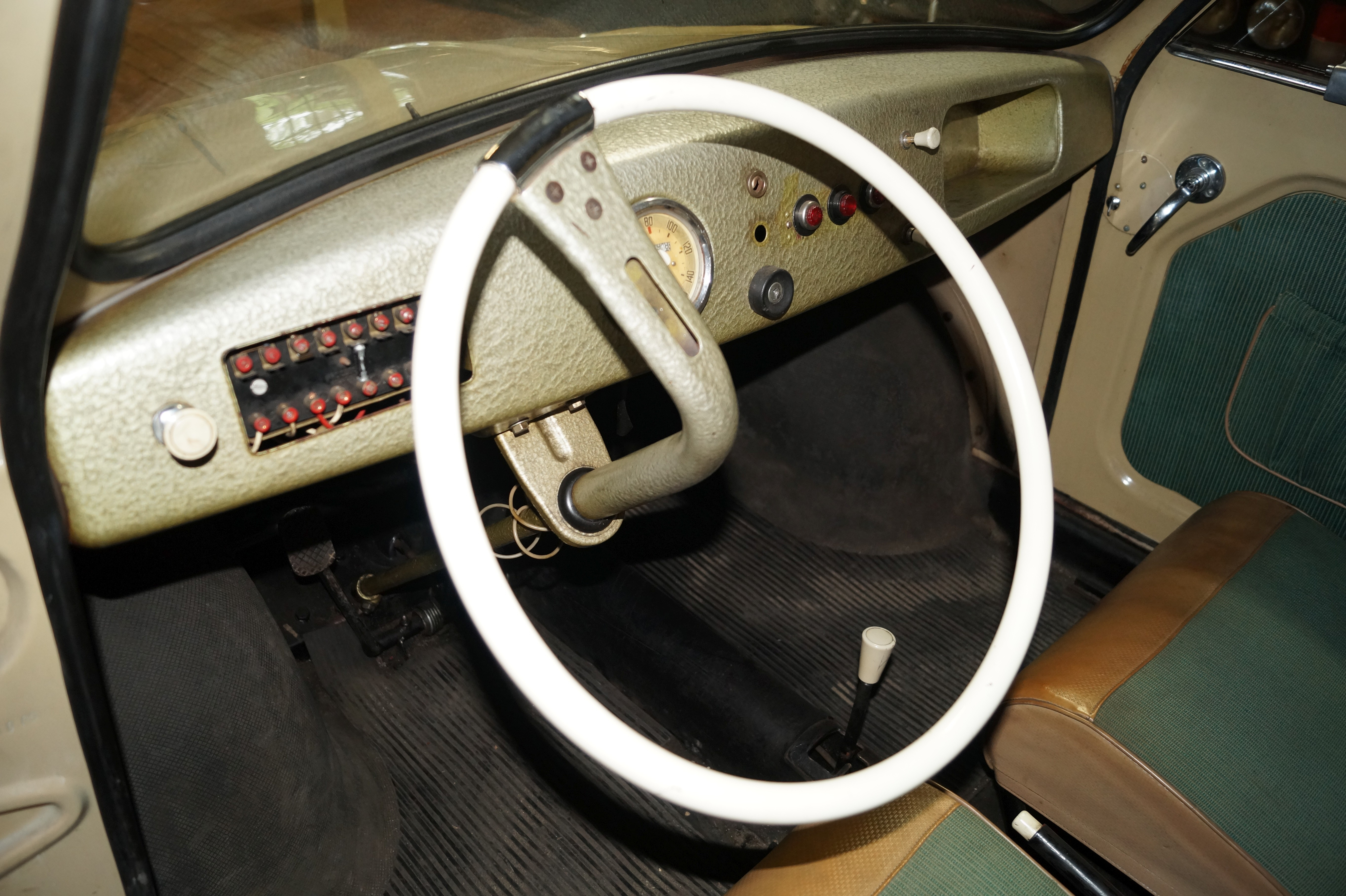 The making of this document was supported by Wikimedia Polska Association, within Wikigrant no. WG 2016-18. English | polski | +/− Wnętrze Mikrusa MR-300 w Muzeum w Chlewiskach